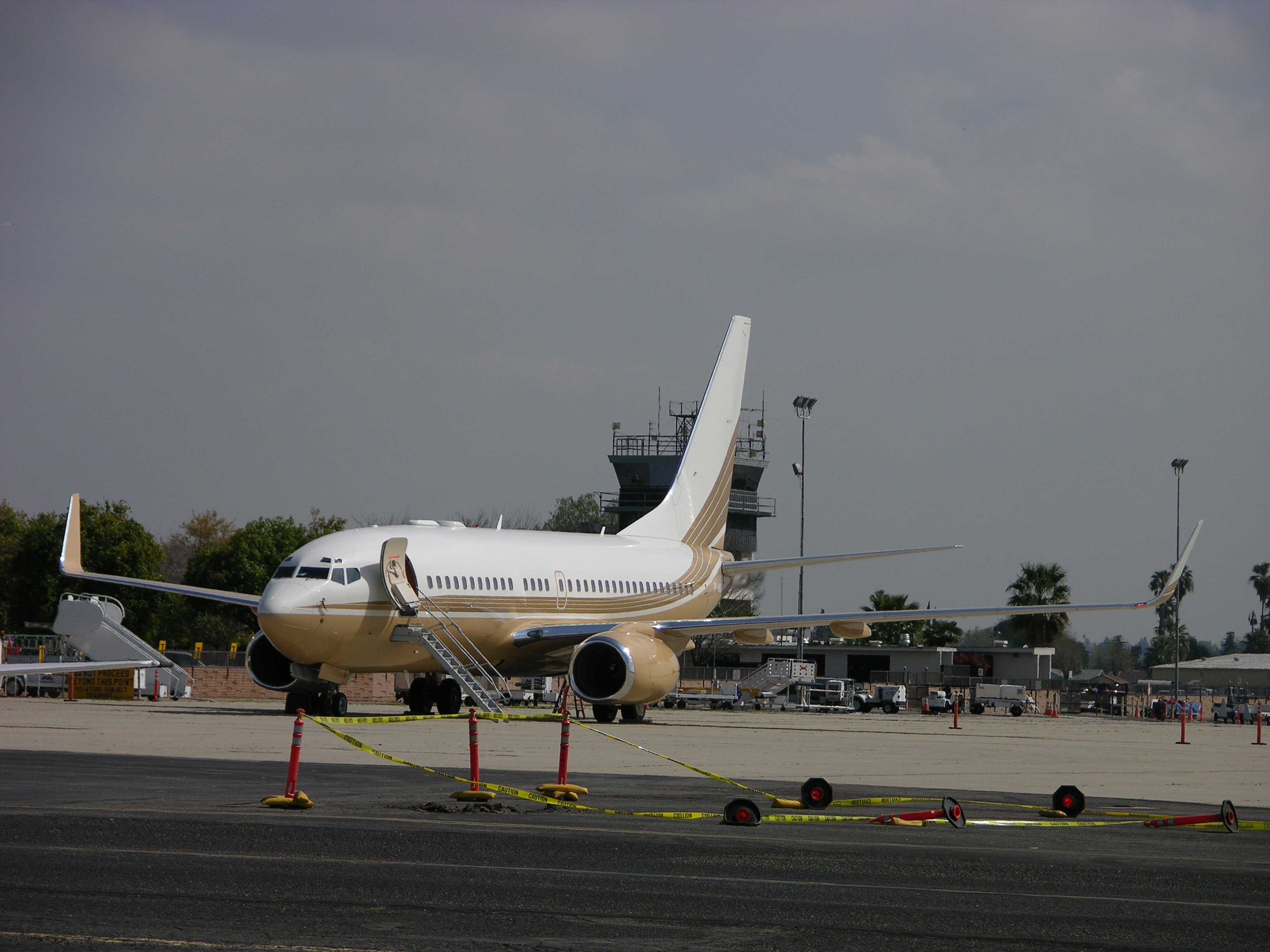 Boeing 737-700 BBJ registration VP-BMC at Meadows Field, Bakersfield California